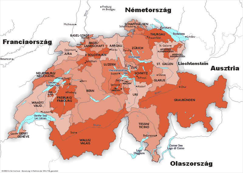 Map of cantons in Switzerland